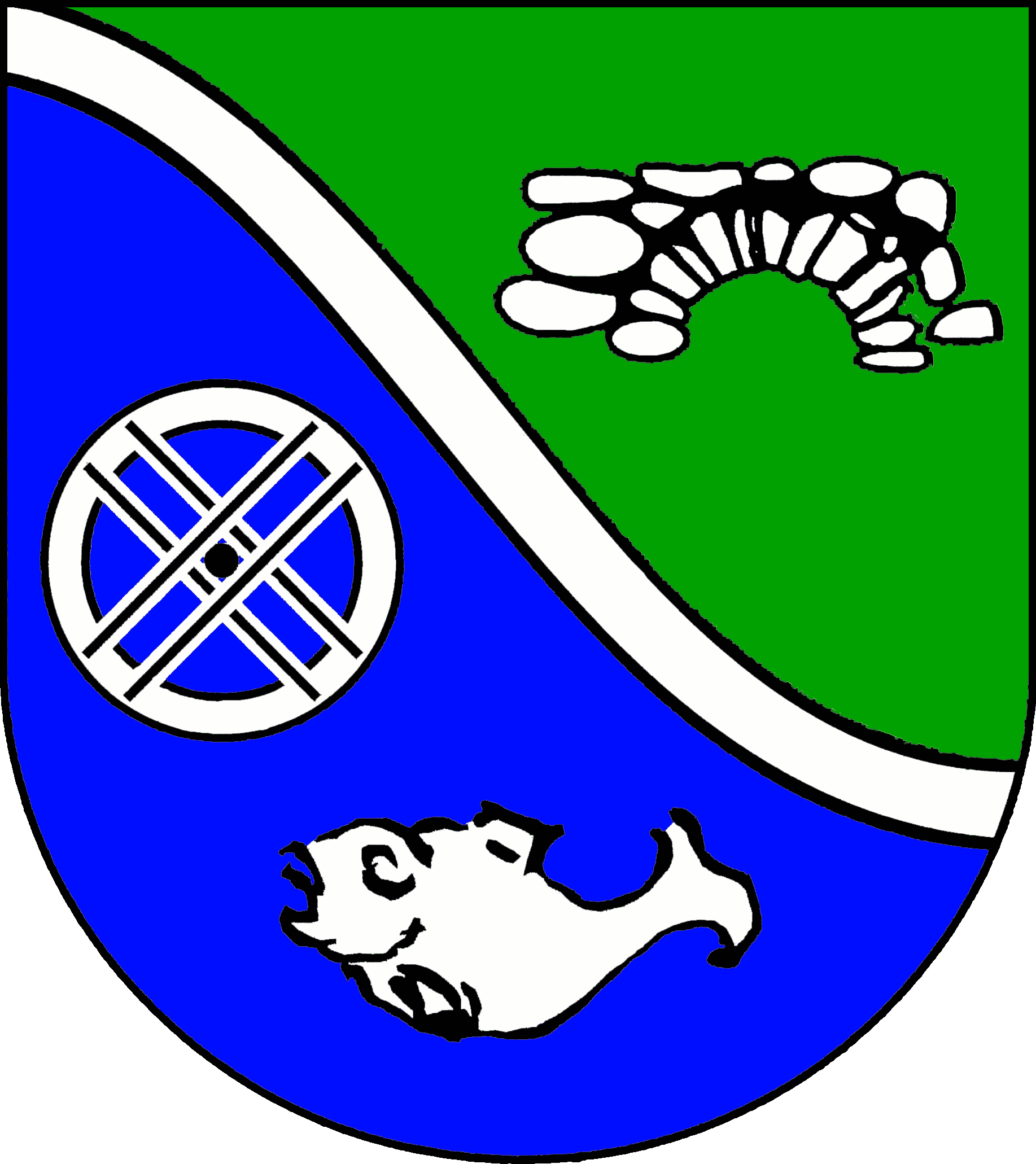 Coat of arms of the municipality Mühlenrade in Schleswig-Holstein, Germany.